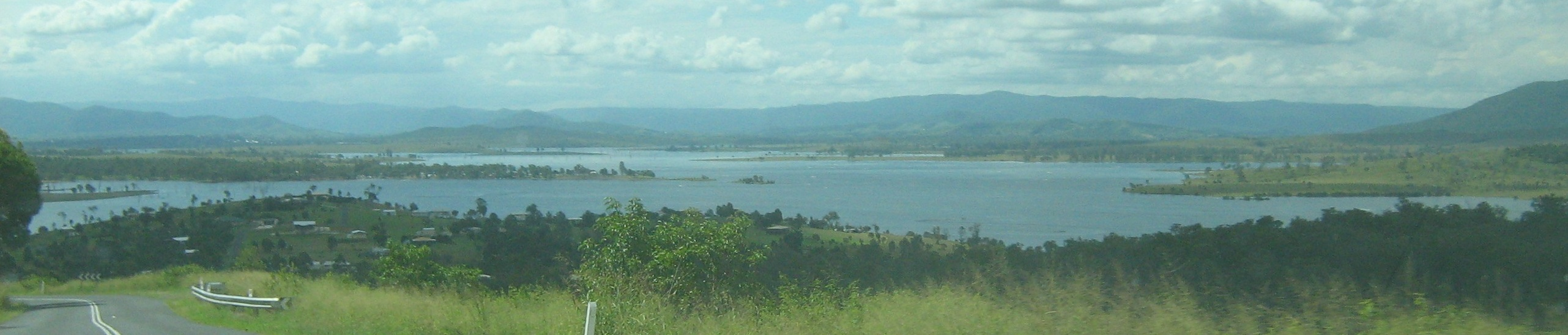 Somerset from above